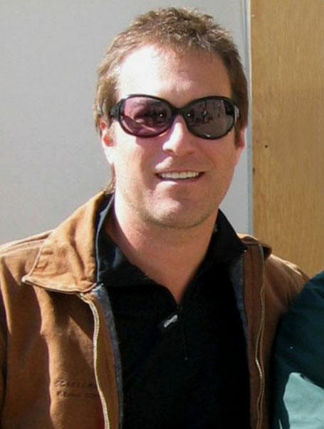 American actor John Corbett visiting the Disabled Veterans Winter Sports Clinic.